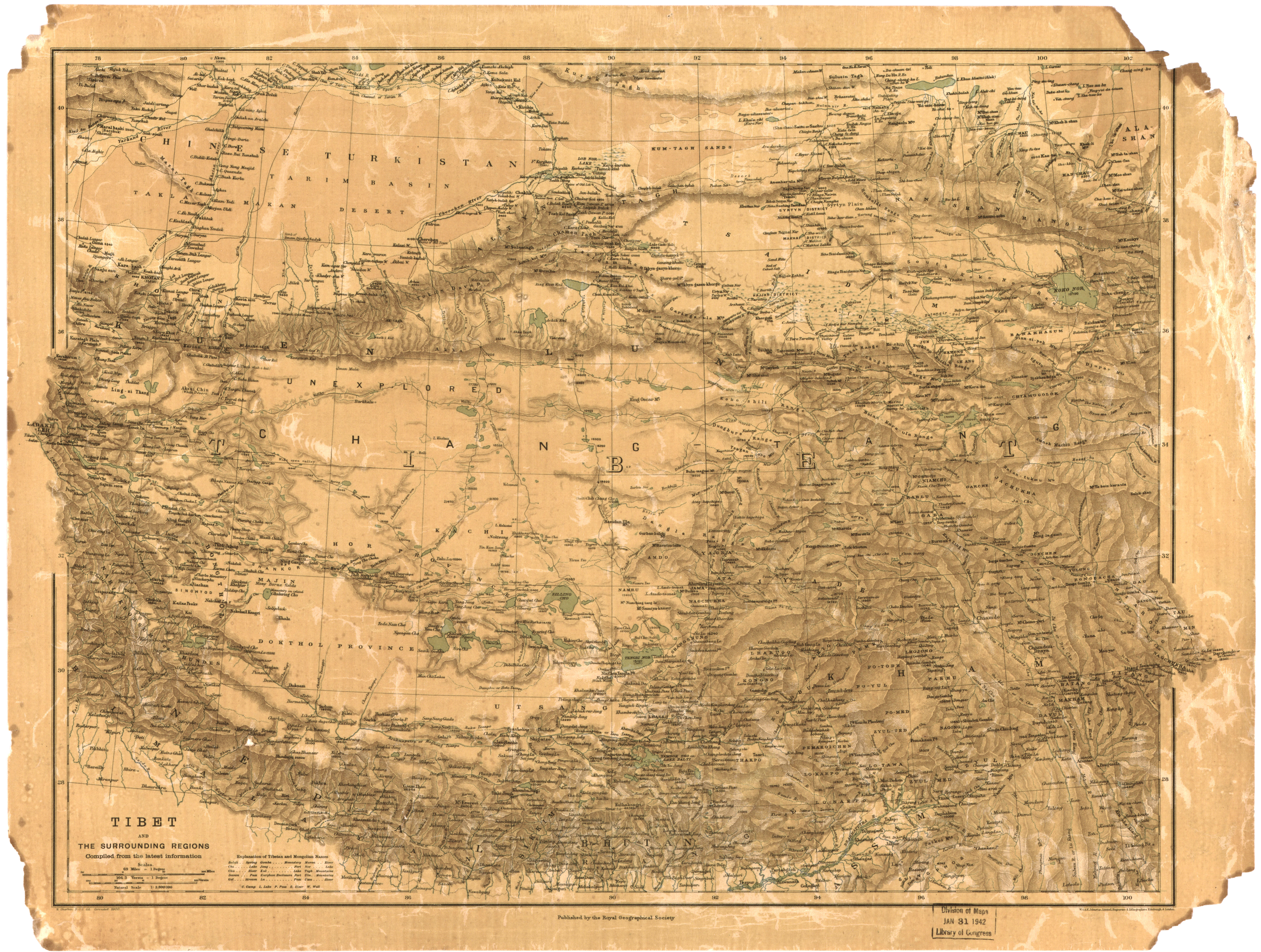 Published by permission of the Royal Geographical Society, London. Relief shown by hachures, shading and spot heights. Scale 1:3,800,000 (E 780--E 1020/N 400--N 280).